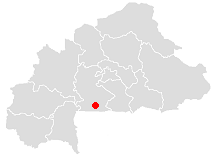 The map shows the location of the town of Léo in Burkina Faso.